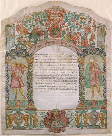 Ketubah (Jewish marriage contract) from Vercelli (Italy), 1776, ink and paint on parchment, 24 1/8 x 20 1/16 in. (61.2 x 50.9 cm), The Jewish Museum, New York, Gift of Samuel and Lucille Lemberg, JM 43-61